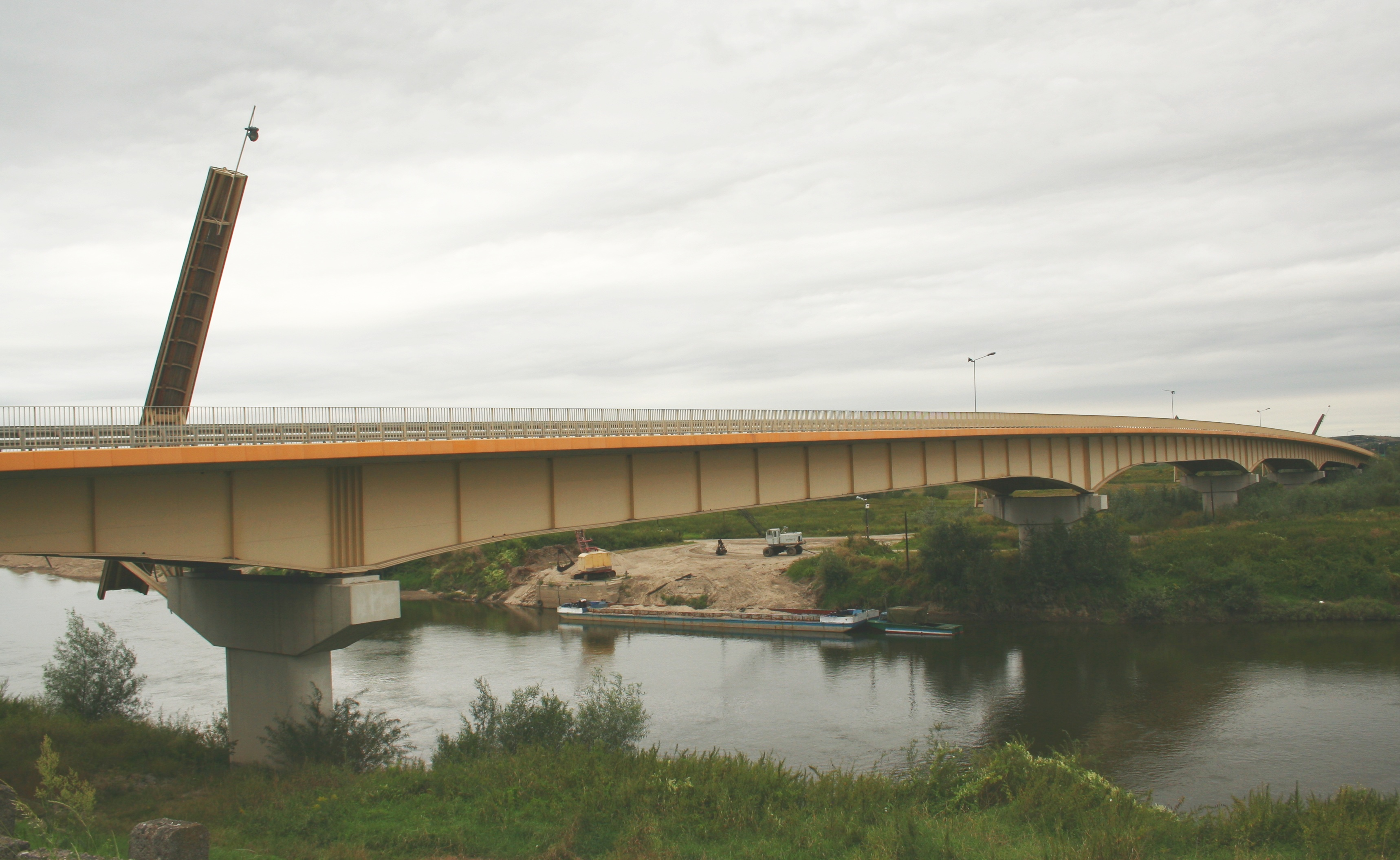 The bridge over Vistula, Poland